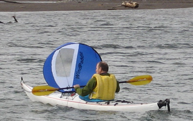 A sea kayak with a Windpaddle sail.